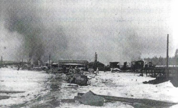 1918 Finnish Civil War: Rautu railway station after the Battle of Rautu, 5 April 1918.